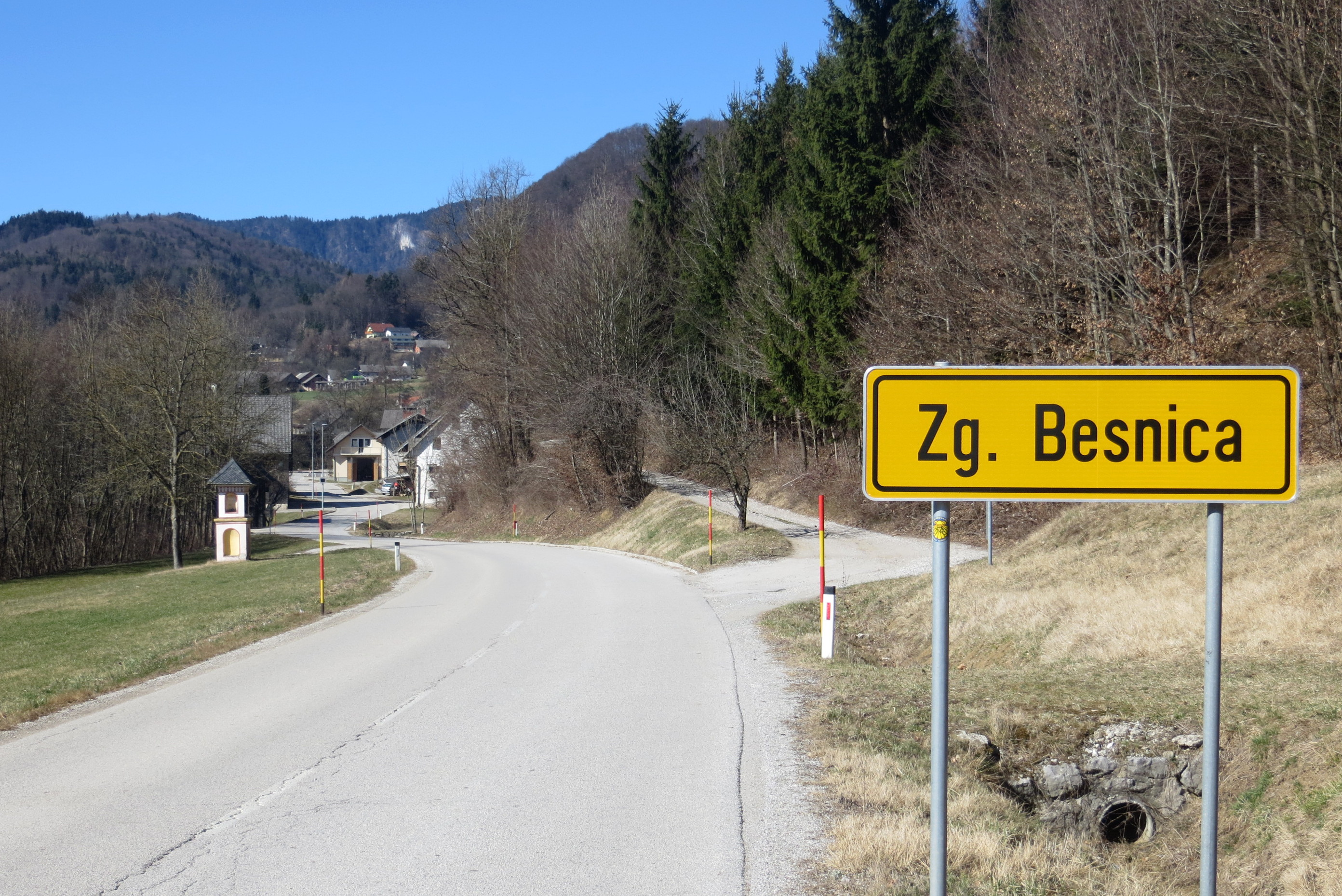 Zgornja Besnica, Municipality of Kranj, Slovenia